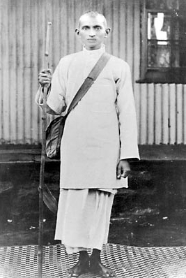 Gandhi dressed as a satyagrahi (non-violent activist) in 1913.